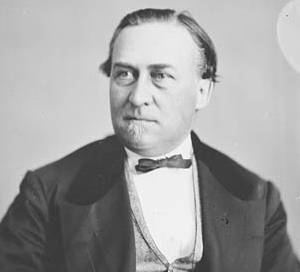 Hon. Sir. Hector Louis Langevin, M.P. (Dorechester, P.Q.), (Minister of Public Works) b. Aug. 25, 1826 - d. June 11, 1906